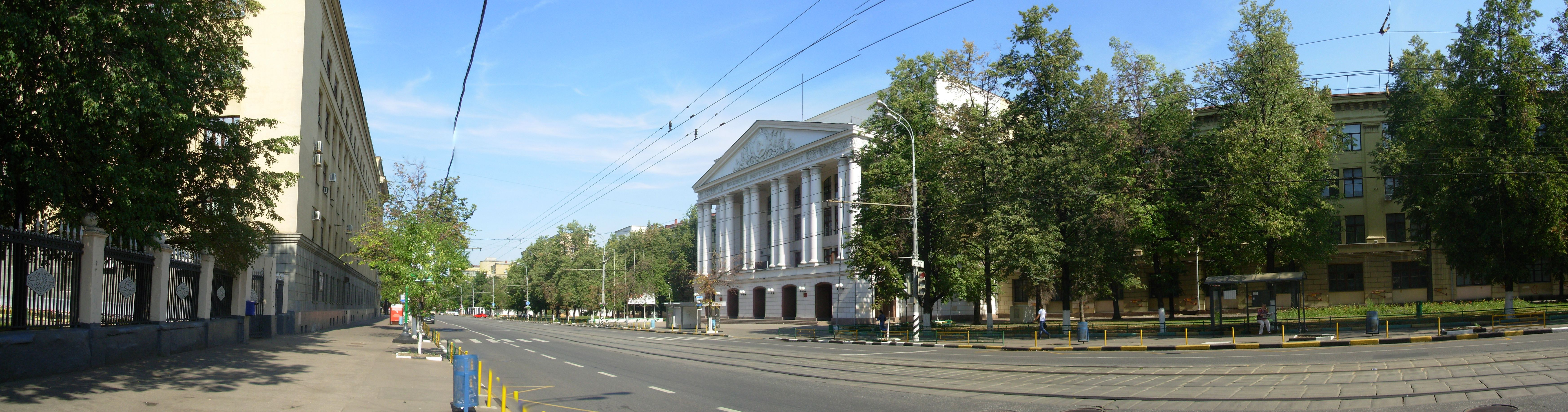 Institute of Moscow, Russia